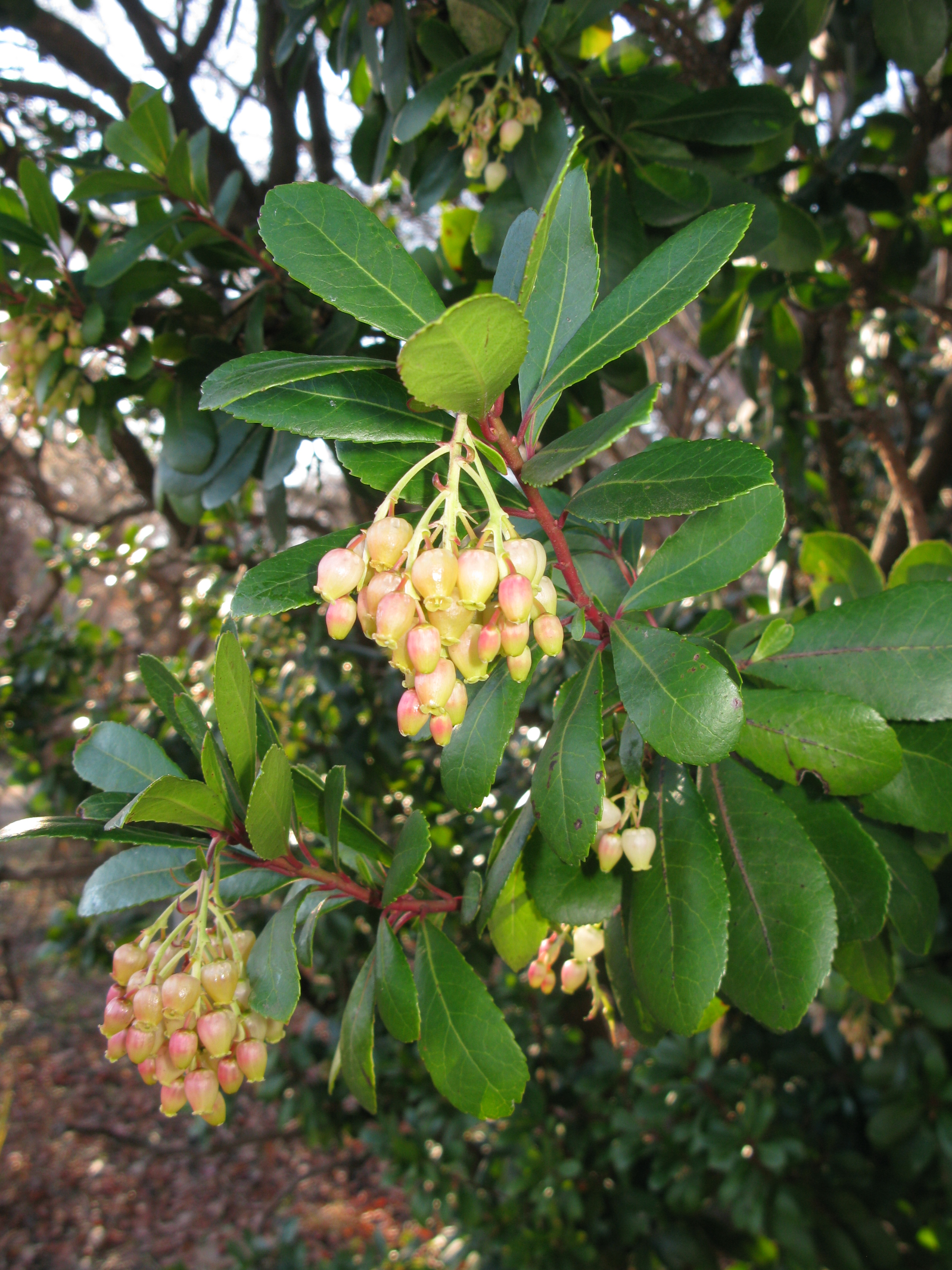 Arbutus unedo, Jindai Botanical Gardens, Japan